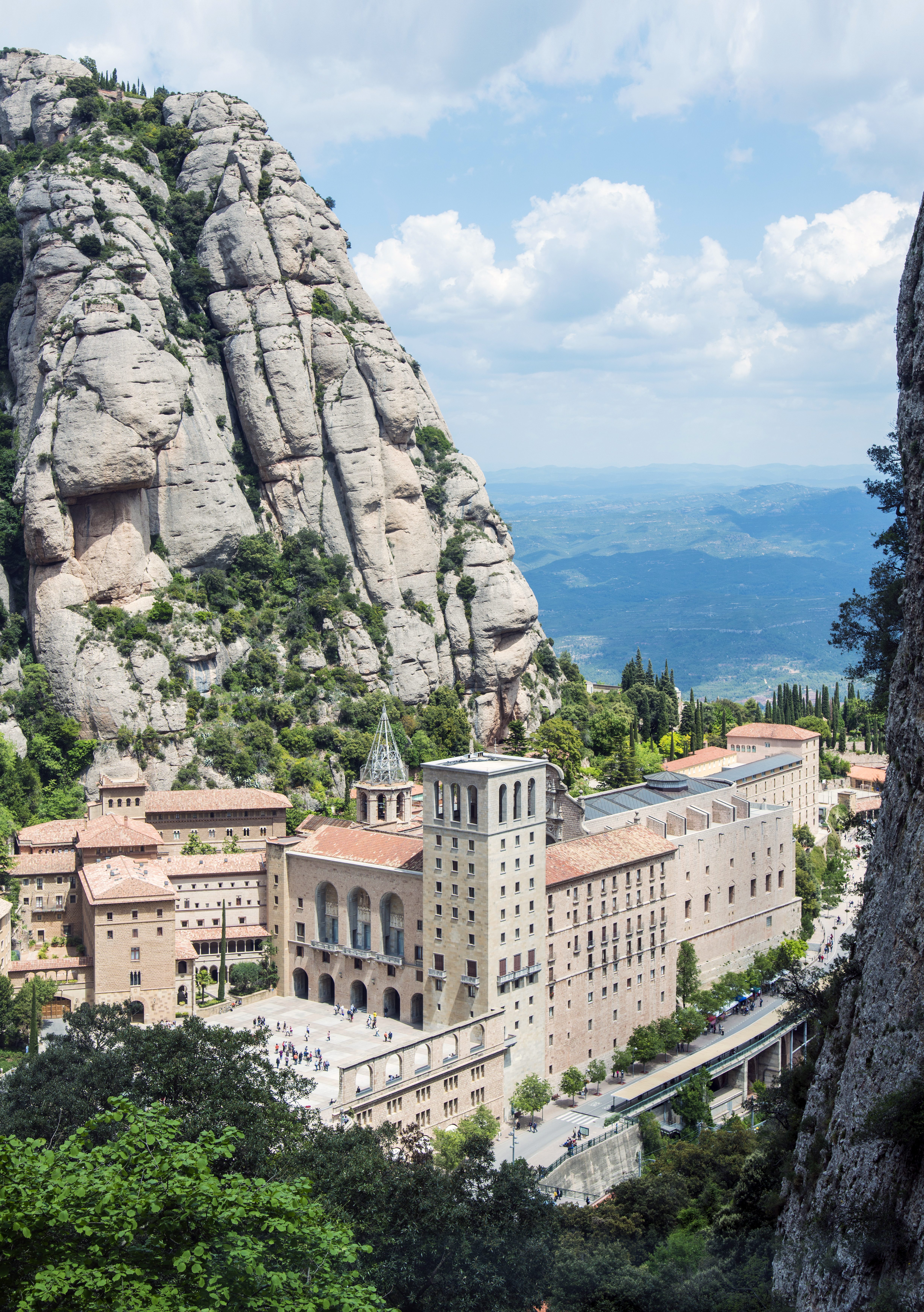 montserrat Santa Maria de Montserrat Abbey, seen from Funicular de Sant Joan 2014